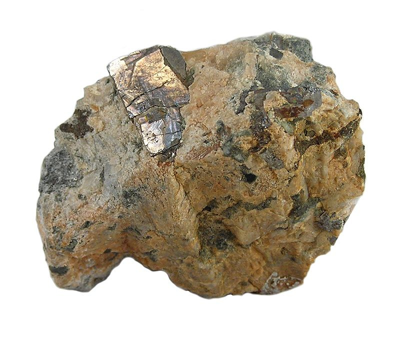 Cobaltite Locality: Brazil Lake Occurrence (Elizabeth Lake Mine), Sudbury District, Ontario, Canada (Locality at ) Classic cubic crystals of cobaltite on a calcite matrix from Ontario, Canada....but of remarkable size for the locality! These crystals have a nice bright luster and are up to 1.2cm on edge. The specimen is very rich with many sharp crystals throughout the piece. This piece is from the Sudbury district, an area highly active in mining and one of the top locations in the world for cobaltite specimens in the old days. However, good display specimens were always rare, even then. This is one of the best I have seen. Former Edna Doughty collection with label. 4.7 x 3.9 x 2.2 cm